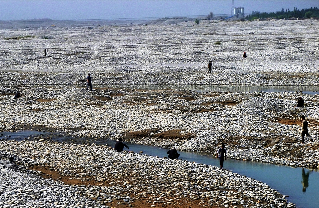 I took this photo on a trip to Khotan in 2011.